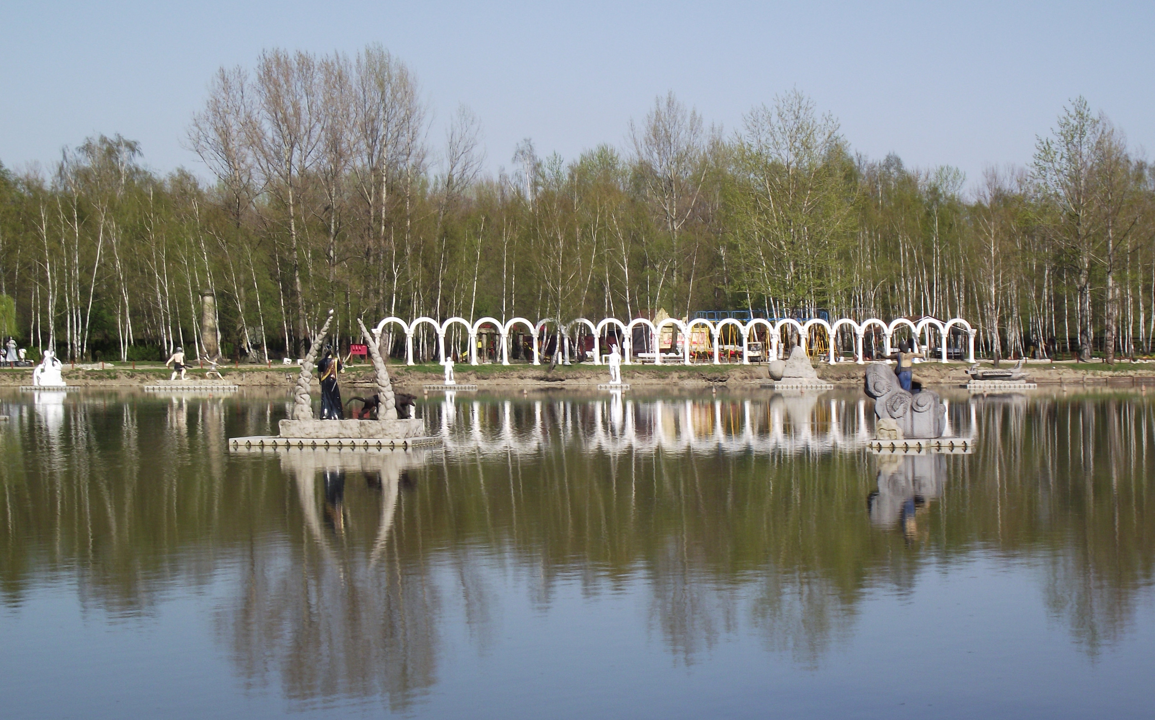 Mythology Park, one of the amusement parks in Zator, Poland.